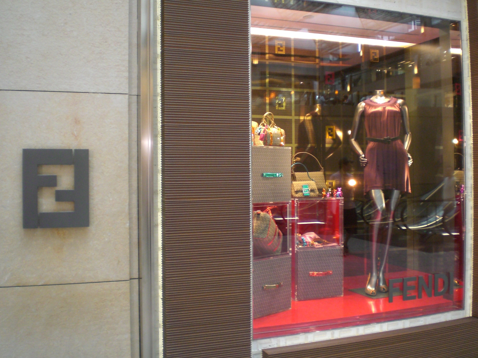 Fendi 置地廣場 Author= Saiyans16